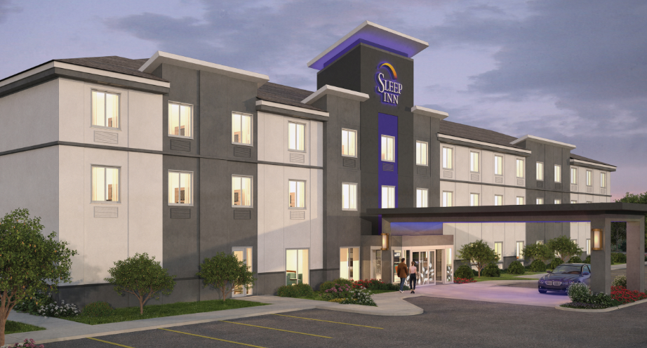 Rendering of Sleep Inn prototype exterior, November 2017 Photo credit: Choice Hotels International, Inc.